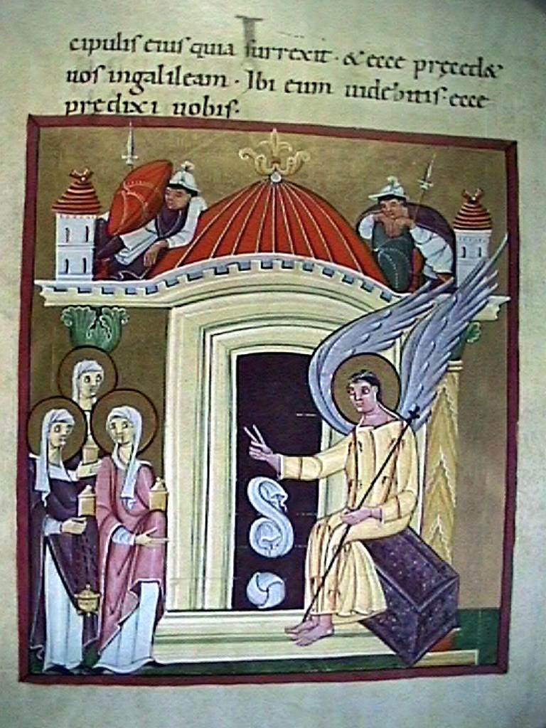 A page from the Bamberg ApocalypseThe three Marys at the tomb.